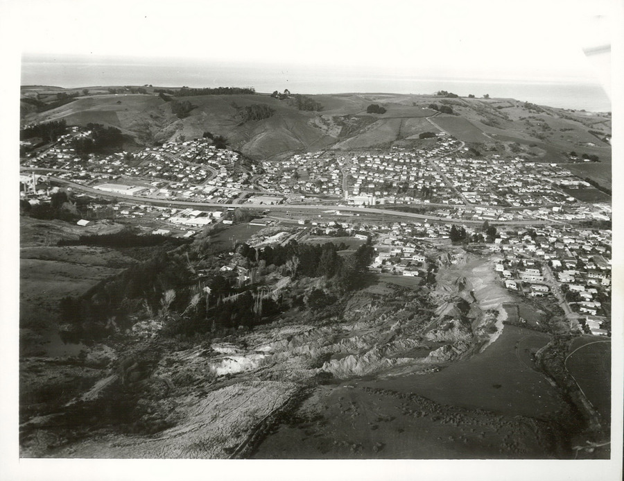 At around 9.07 pm on 8 August, Abbotsford hill gave way. In all, some 18 hectares (44 acres) of land — nearly half of it residential — moved a distance of 48 metres (157 ft) down the hill in a mere 15 minutes.